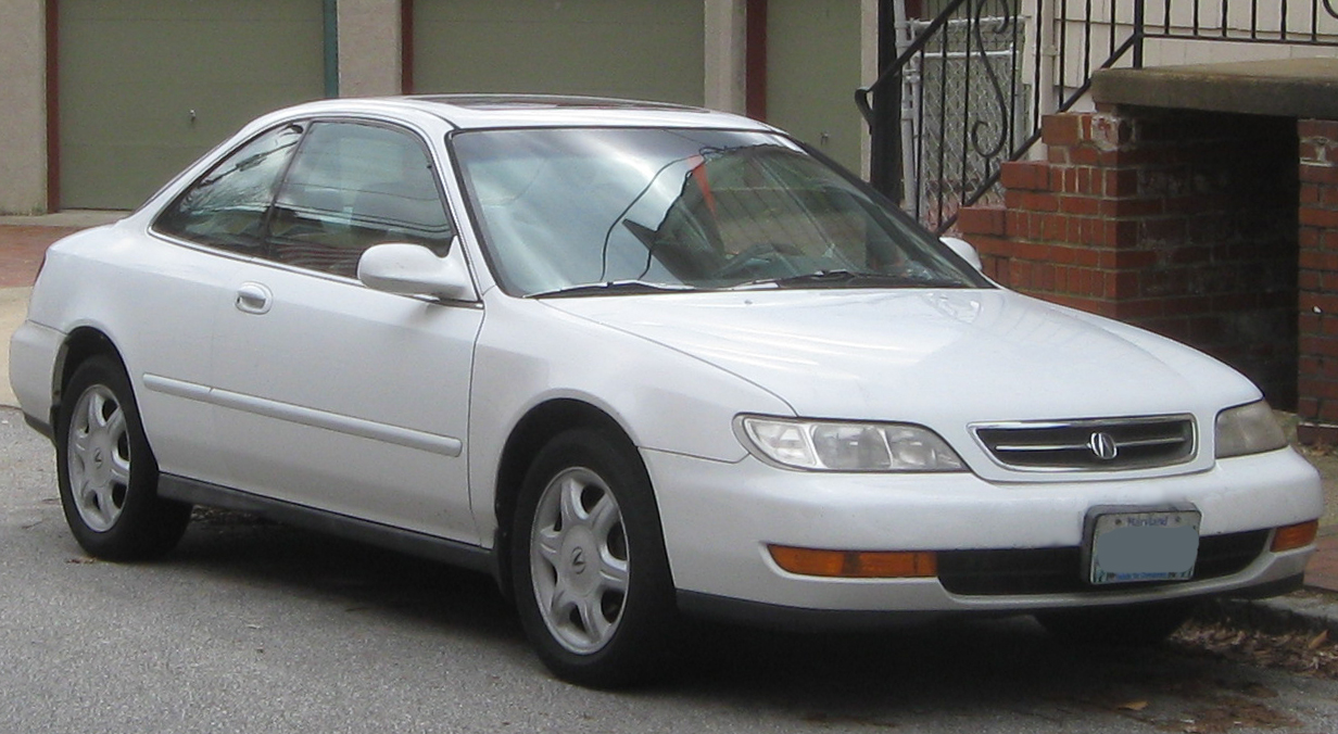 1997 Acura CL photographed in Annapolis, Maryland, USA.